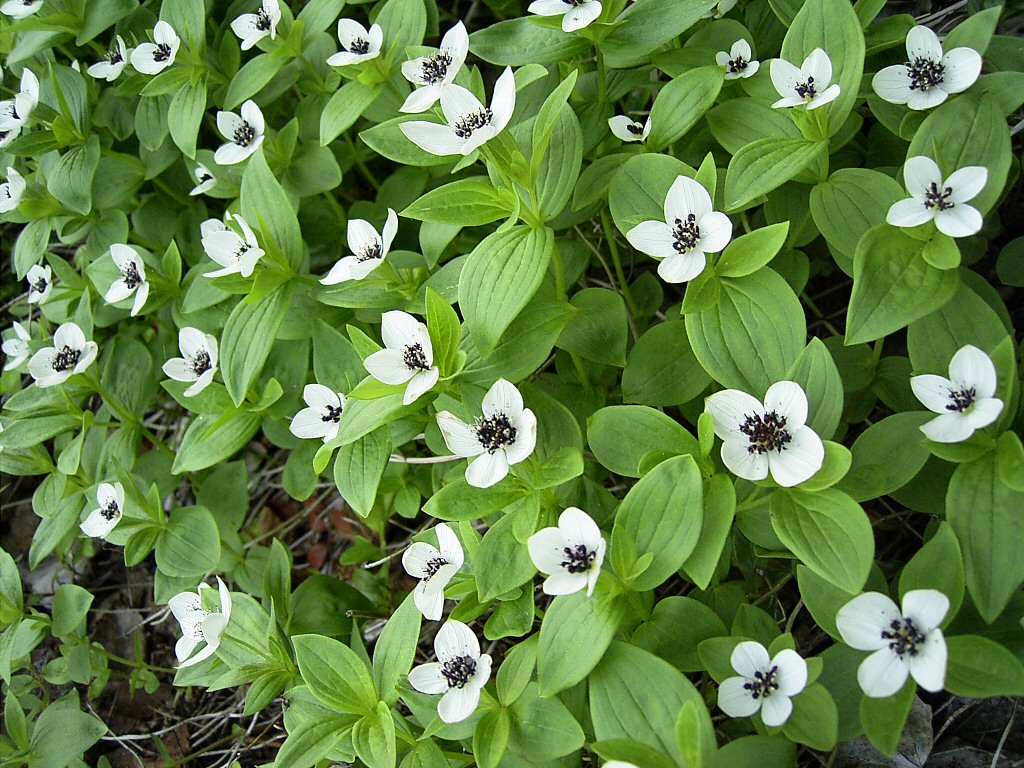 Eurasian Dwarf Cornel on the Ume River (near Vännäs, Sweden)